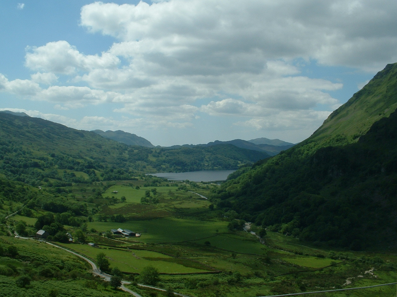 Looking west down the pass towards Llyn Gwynant, Snowdonia, Wales. Taken by Necrothesp, 26 June 2005.